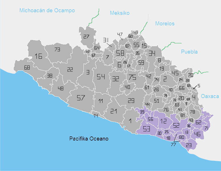 locator map, the region "Costa Chica" in the mexican state Guerrero